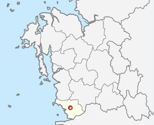 Map of Seocheon County in South Korea